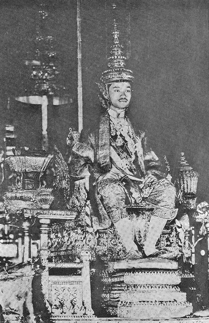 King Prajadhipok of Siam, wearing the full traditional monarchical attire, sits on the Phuttan Kanchana Singhat Throne (พระที่นั่งพุดตานกาญจนสิงหาสน์) under the Nine-Tiered Umbrella (นพปฎลมหาเศวตฉัตร) inside the Amarain Winitchai Hall (พระที่นั่งอมรินทรวินิจฉัย).